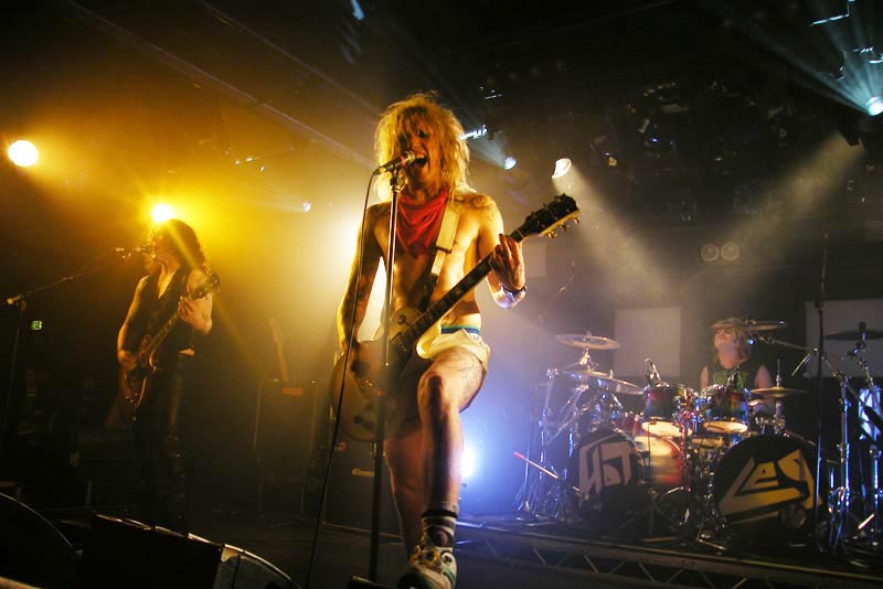 Hot Leg live in Norwich, March 16th 2009.